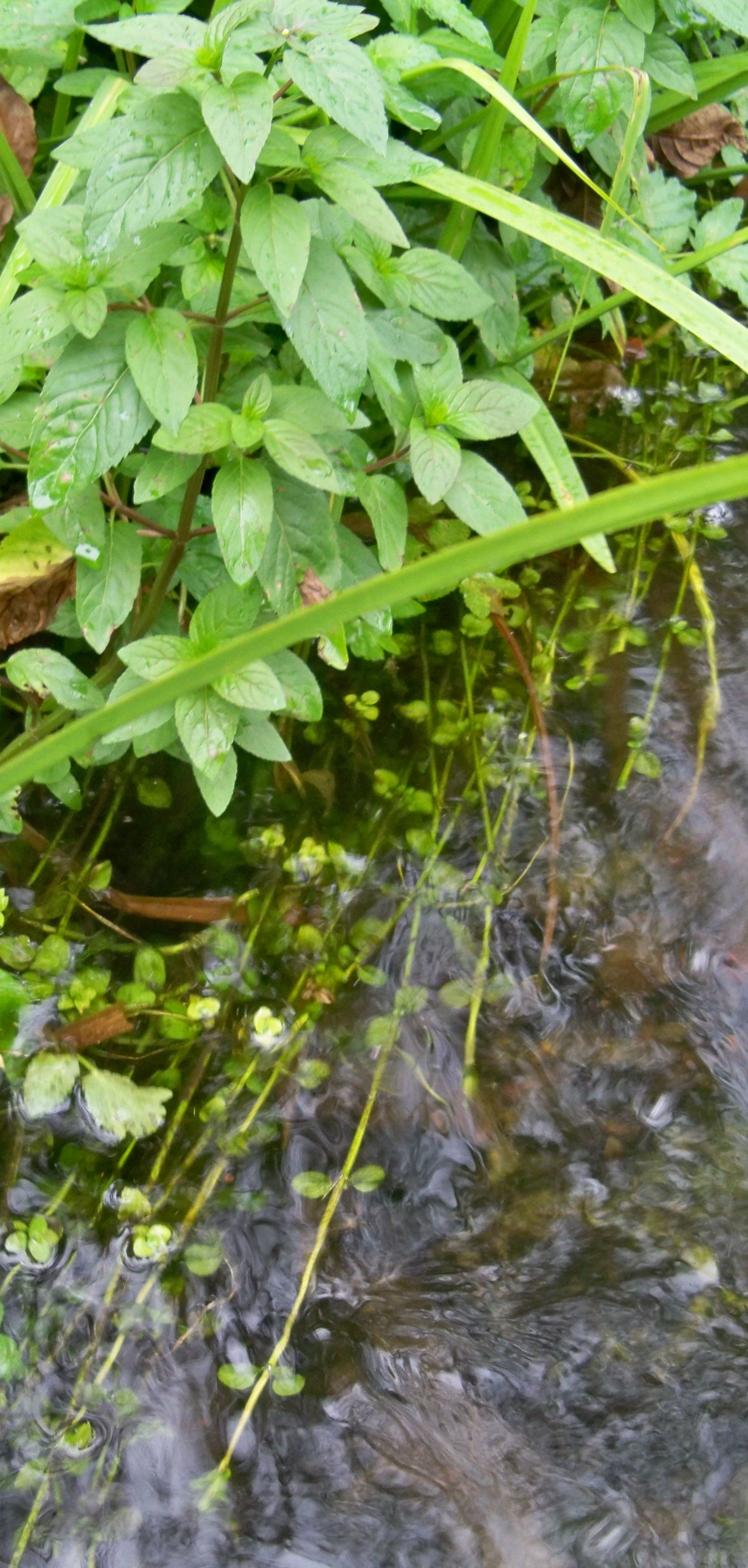 Mentha aquatica with floating stems